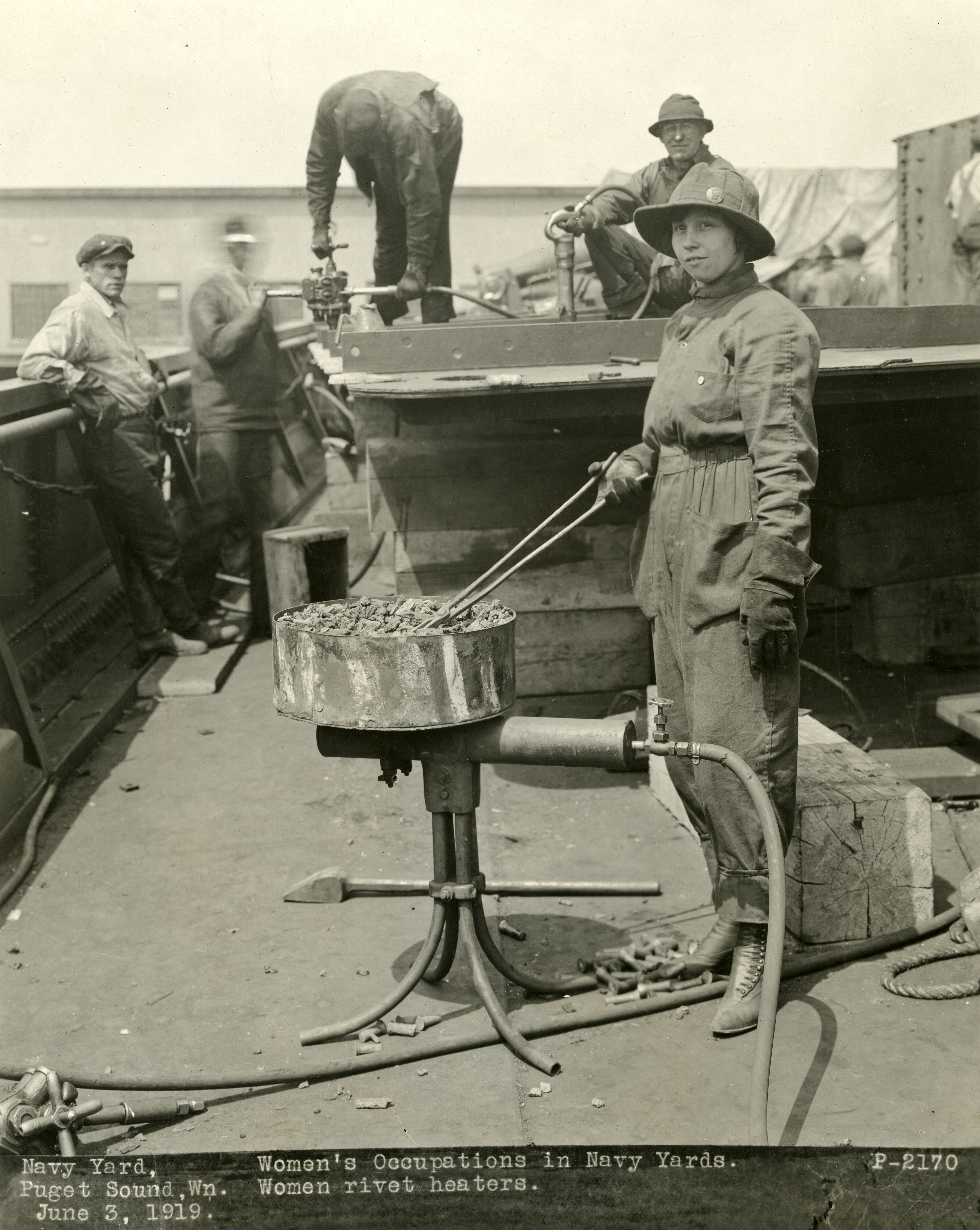 Woman heating rivets for men at small charcoal furnace. Uniform good.